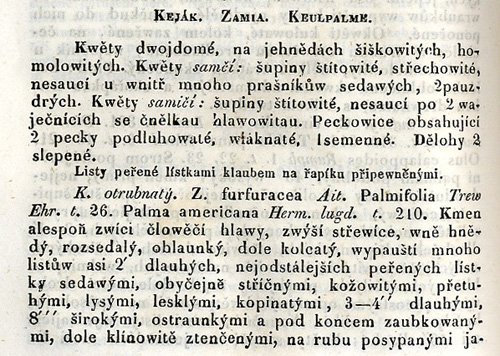 Etymology of the Czech Name for Zamia